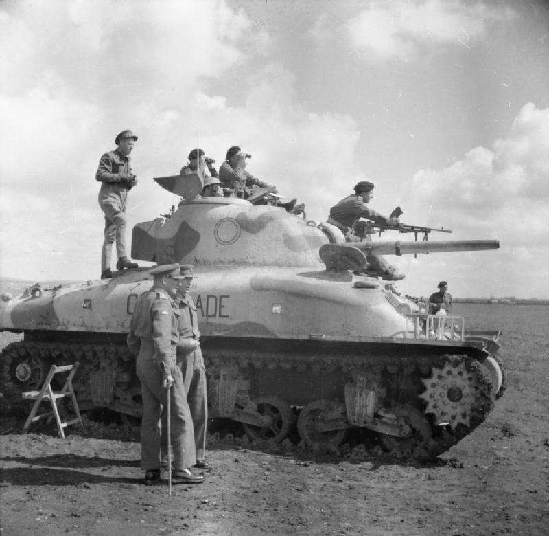 The British Army in North Africa 1943 Lieutenant General W G Holmes, GOC 9th Army, stands on a Sherman tank of the Wiltshire Yeomanry to watch a gunnery display, 5 April 1943.